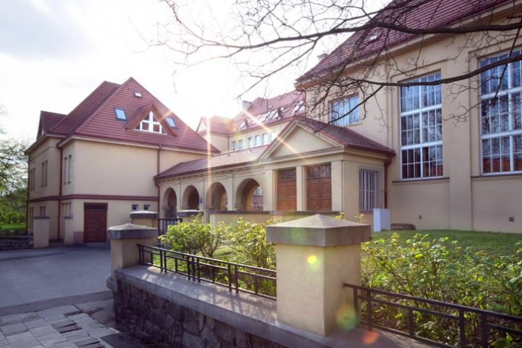 Faculty of Education